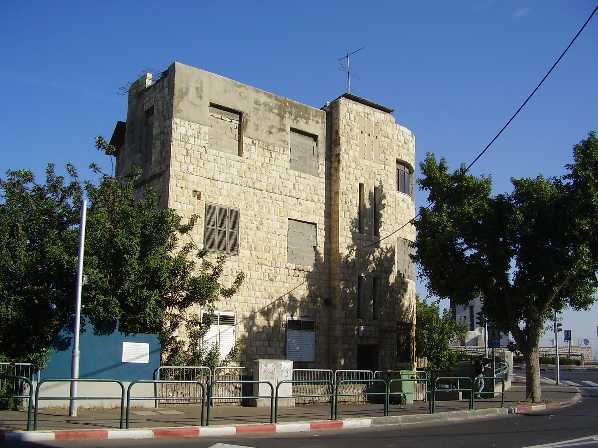 najada house in hifa